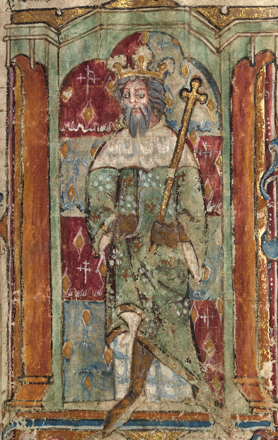 Llanbeblig Hours (f. 3r.) A king, possibly Magnus Maximus, holding a sceptre